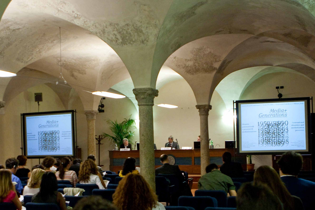 Media + Generations Conference, 11-12 September 2009, Milan, Crypt of the UCSC